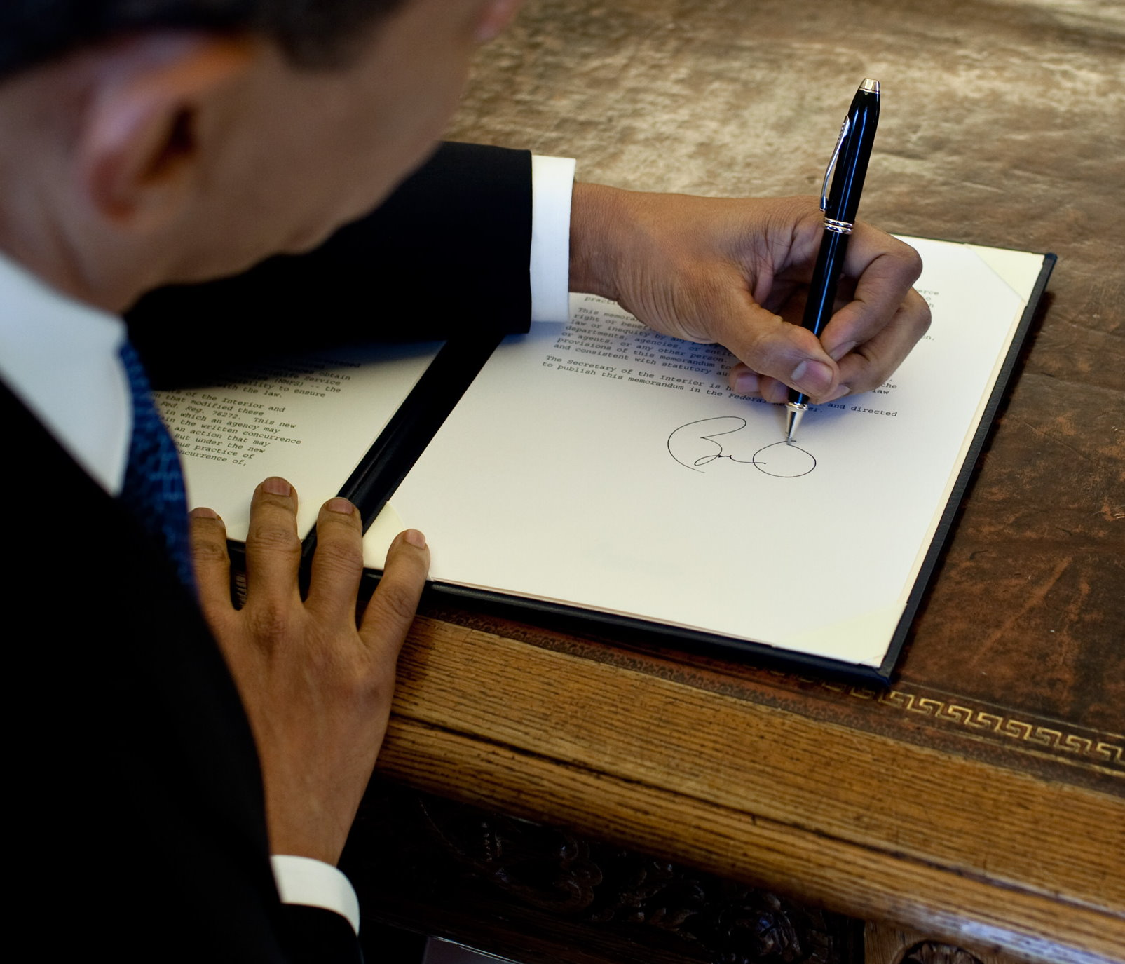 President Barack Obama writes at his desk in the Oval Office 3/3/09.